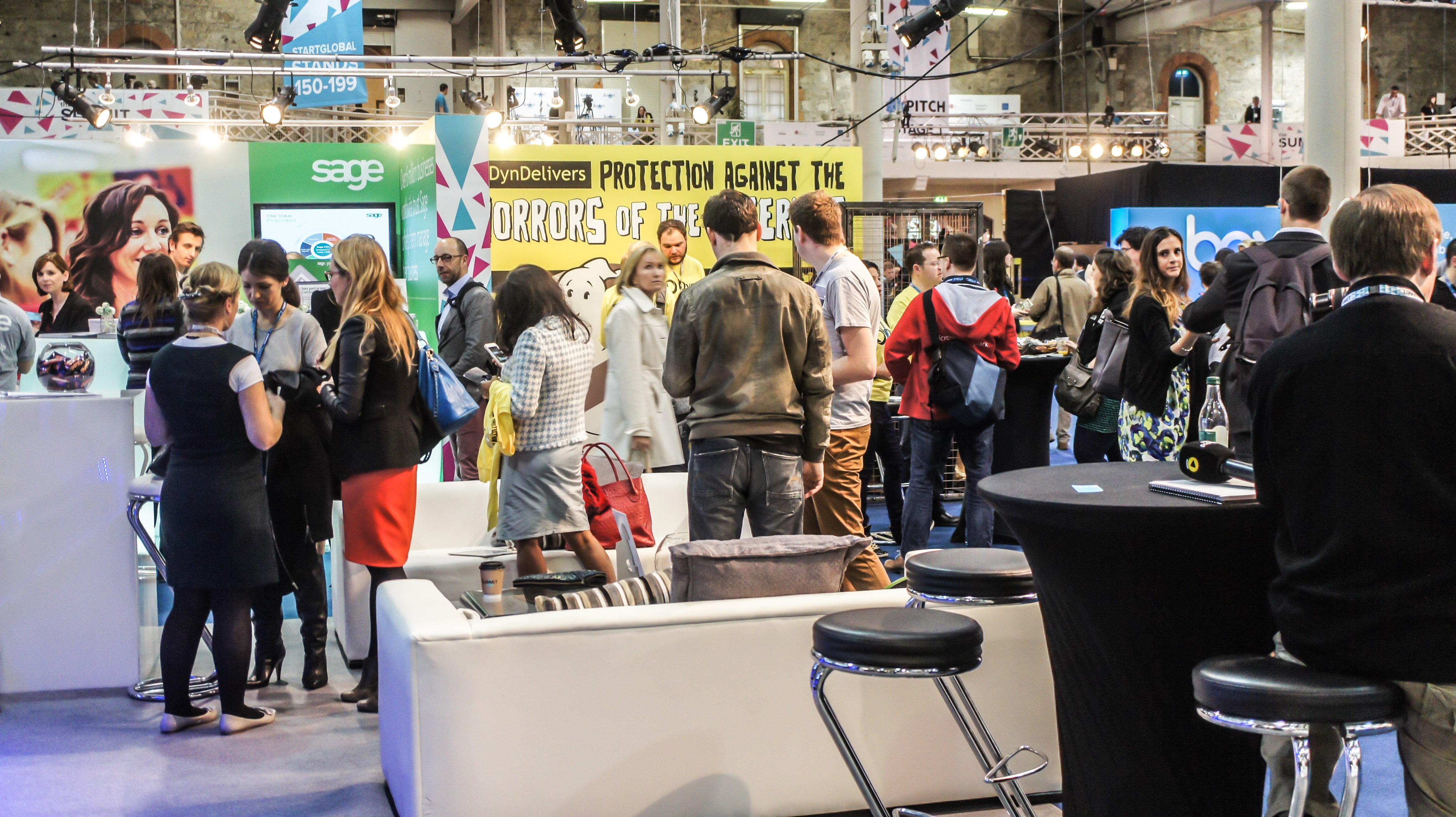 Web Summit 2013, Dublin